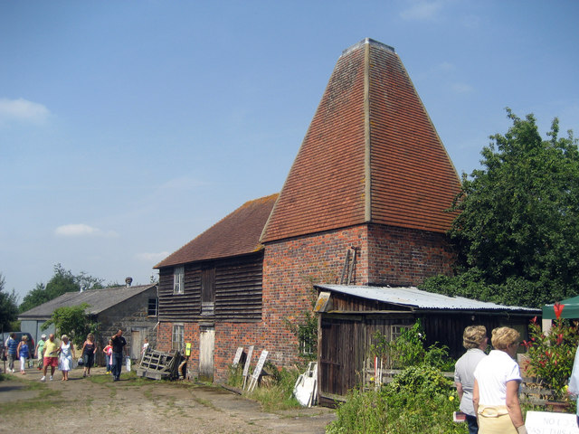 Oast House at Buss Farm, Pluckley Road, Bethersden, Kent